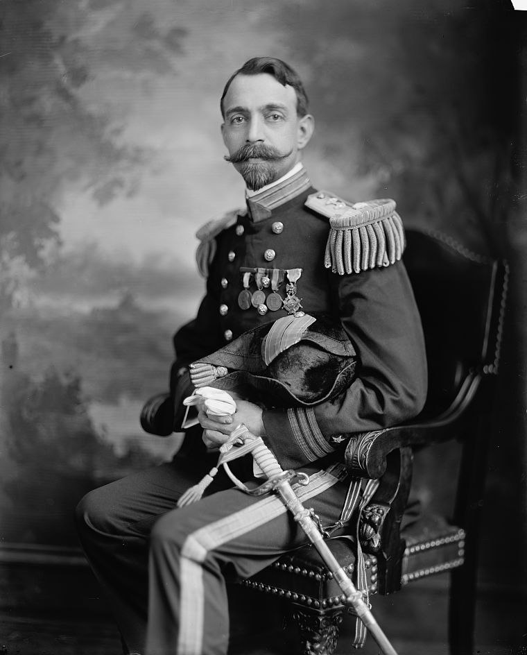 Rear Admiral Walter S. Crosley, USN, pictured as a Commander, about 1912.